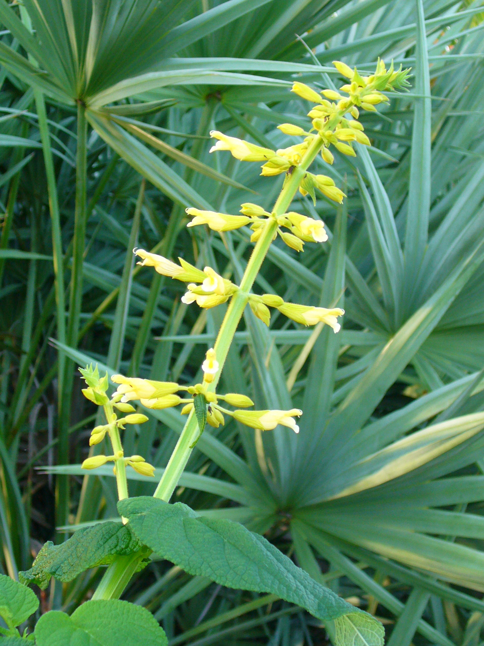 South Miami, FL, USA Serenoa repens in the background